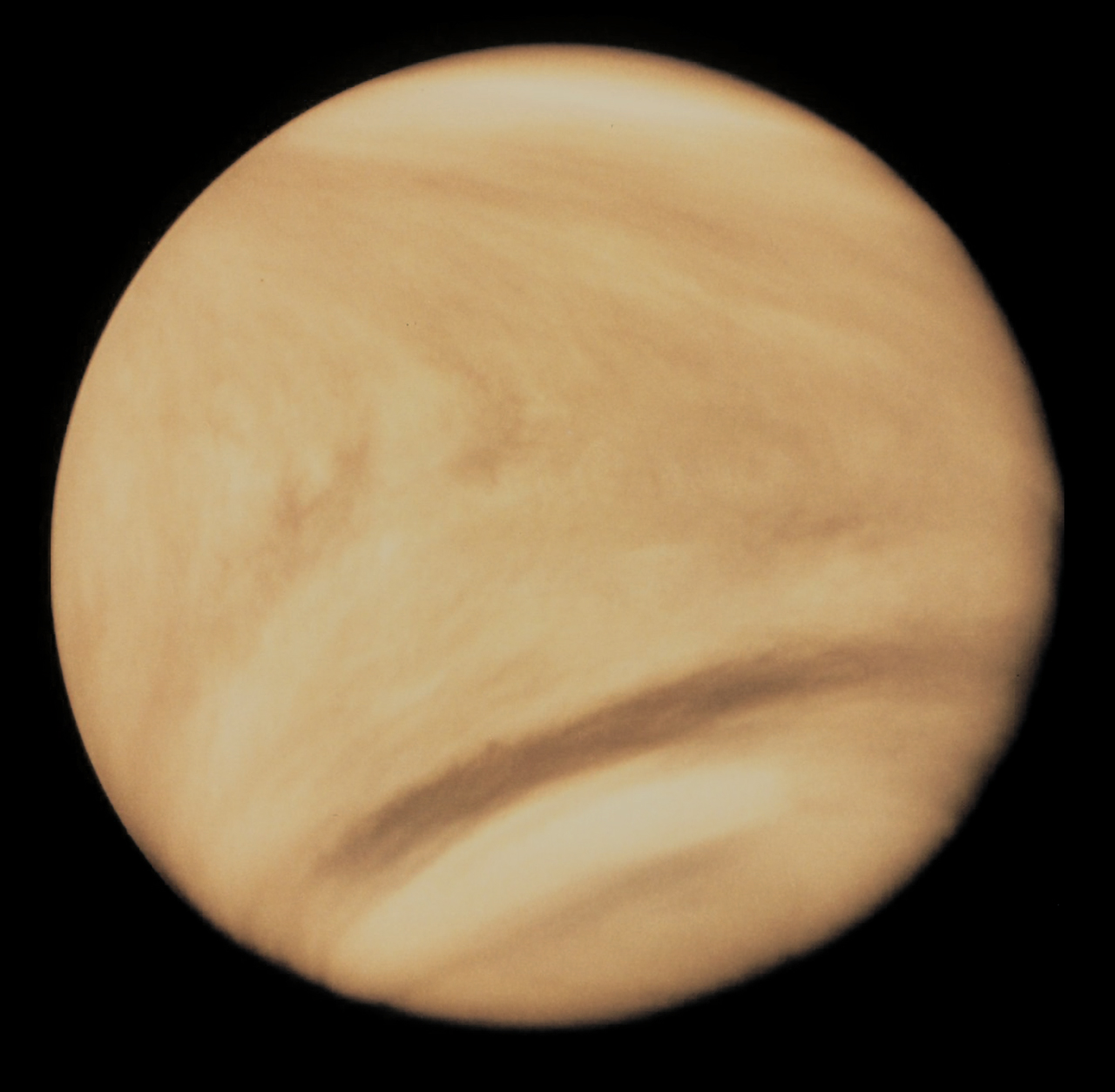 The Pioneer Venus spacecraft took this image of Venus in 1979 using a filter that only allowed ultraviolet light to reach the camera. The visible surface of Venus (which is almost Earth’s twin in size) is actually the top of a cloud layer that completely covers the planet. The clouds are composed of droplets of sulfuric acid in a carbon dioxide atmosphere with a surface pressure over 90 times greater than the pressure at sea level on Earth. The dense atmosphere produces an extreme greenhouse effect by trapping heat radiated by the planets, causing the surface temperature to be near 900°F. The clouds on Venus rotate in a retrograde (opposite to Earth’s rotation) direction once in four days. Earth-based radar measurements show that the solid surface of Venus also rotates in a retrograde direction, requiring 243 days for one rotation.